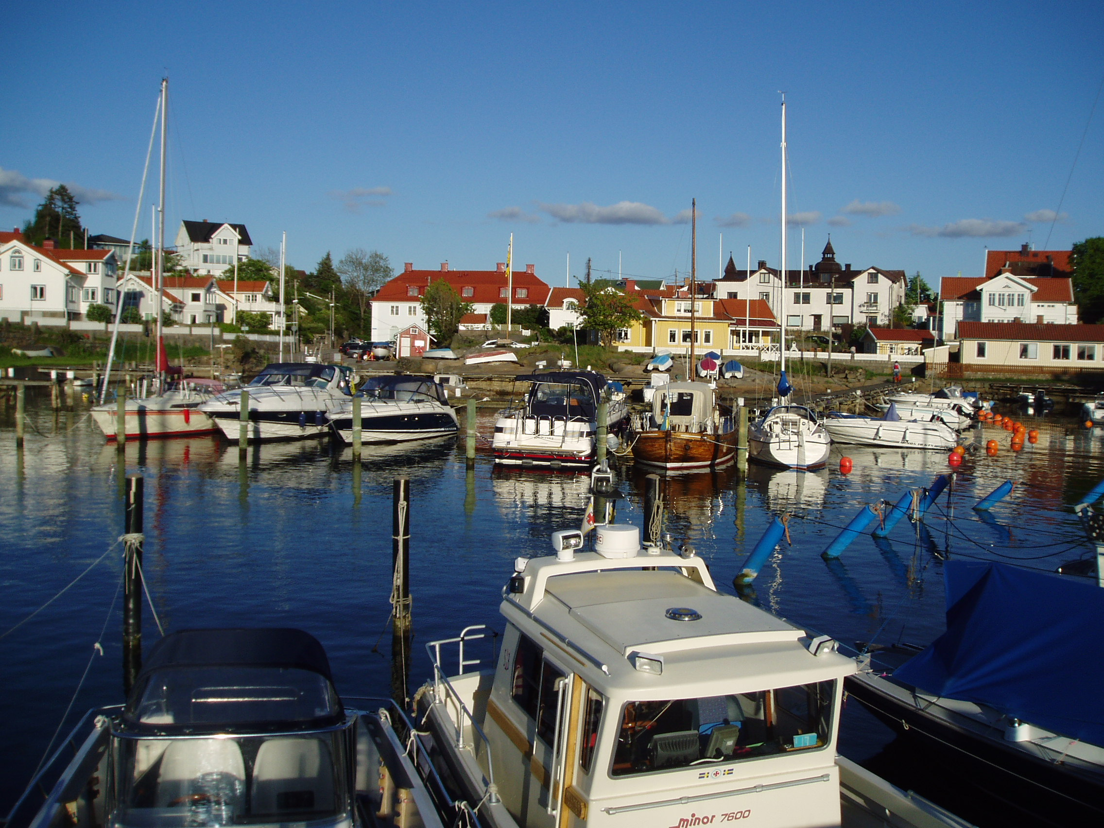 Harbour at Långedrag, part of Gothenburg